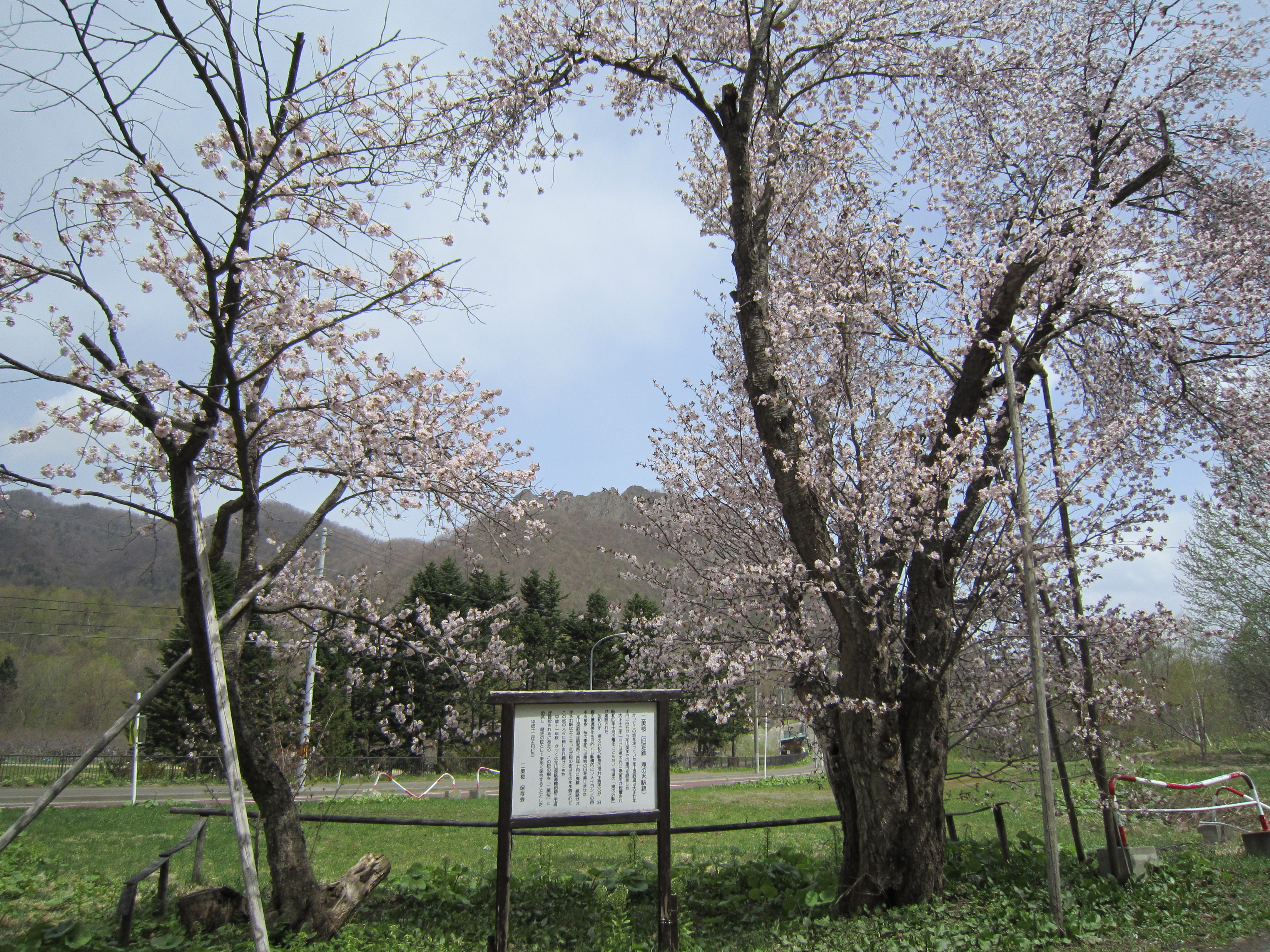 Twin Sakura of Takinosawa